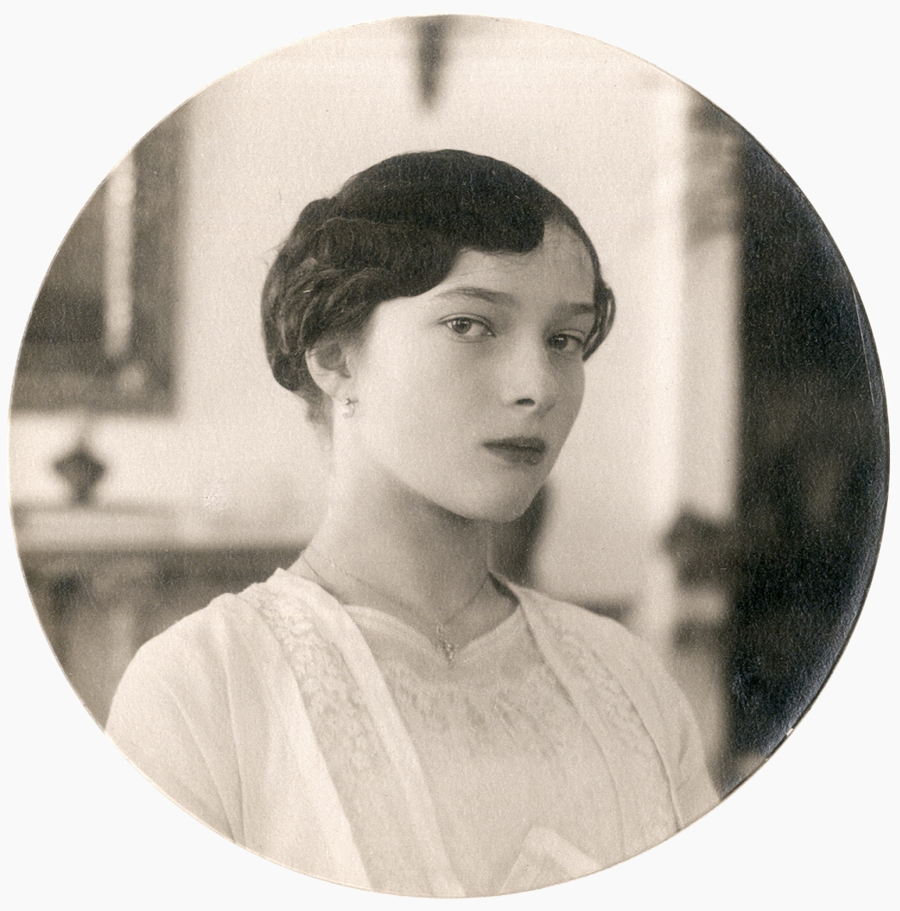 Grand Duchess Tatiana Nikolaevna of Russia by Eugène Fabergé